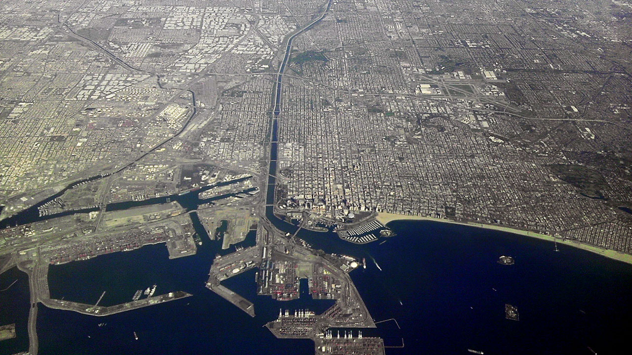 Photograph of Long Beach. California taken from an airplane looking northward. Also seen in the photograph are parts of the Port of Long Beach, the entire city of Signal Hill and parts of surrounding areas. This photograph was taken on January 4th, 2013 and was modified by increasing the contrast and adjusting levels. It was resized to half the original size due to the low quality of the original image.